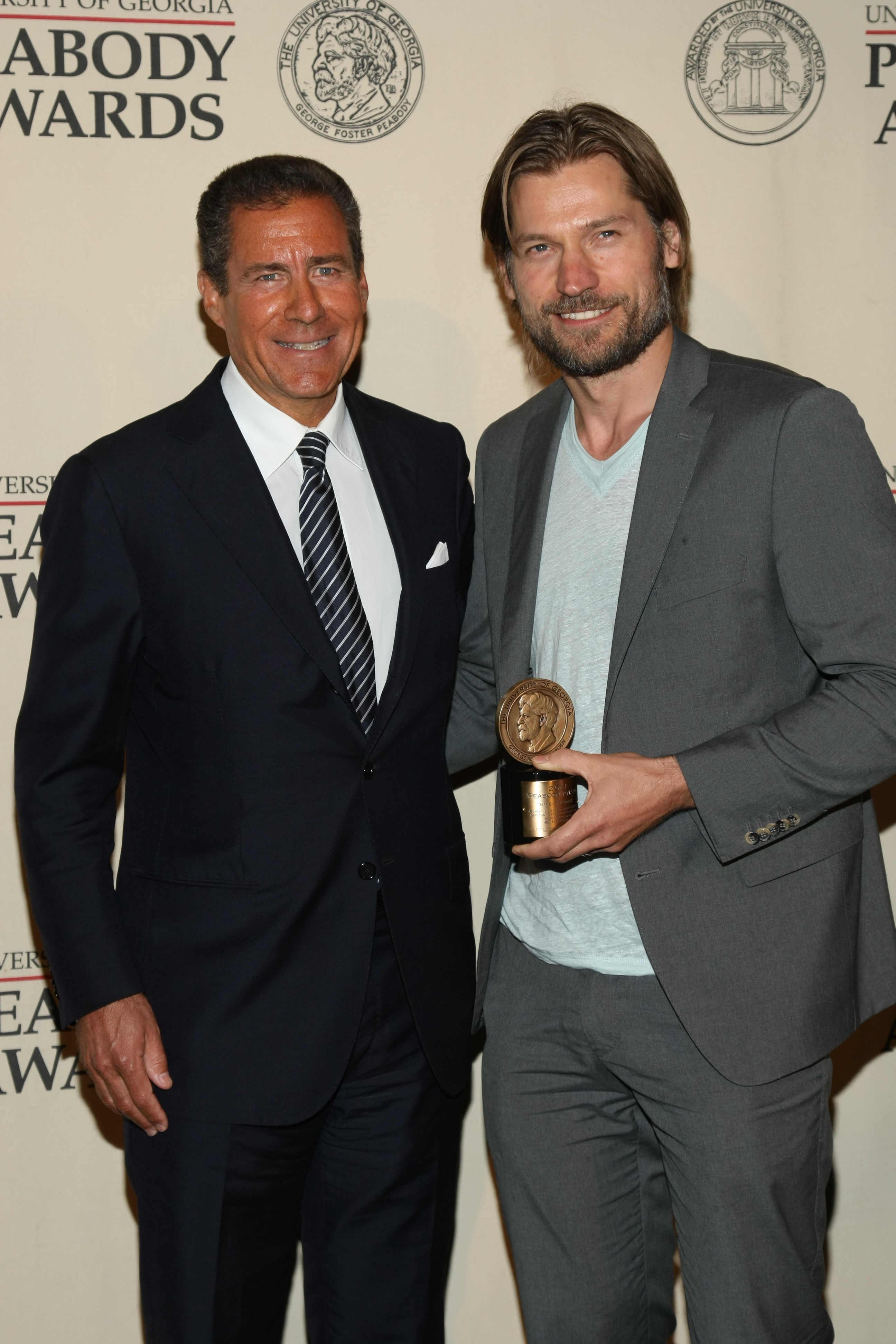 PHOTO CREDIT: ANDERS KRUSBERG / PEABODY AWARDS Richard Plepler & Nikolaj Coster-Waldau, who plays Jamie Lannister 71st Annual Peabody Awards Luncheon Waldorf=Astoria Hotel May 21, 2012